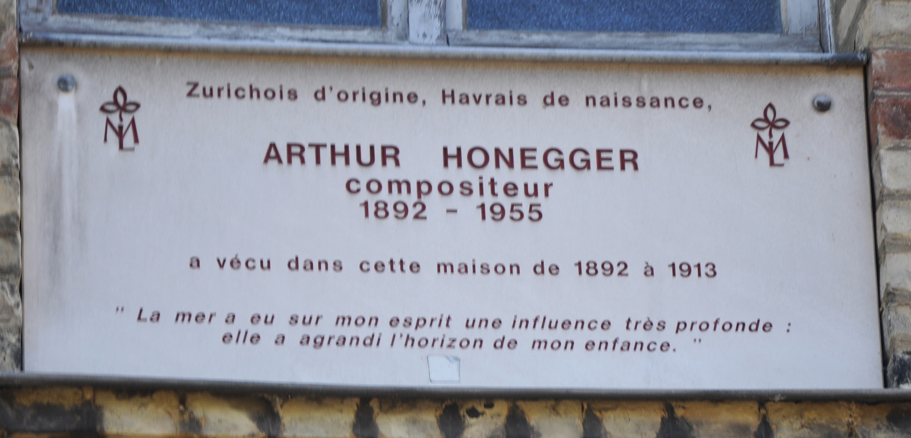 Arthur Honegger, plaque in Le Havre (France, Normandy)